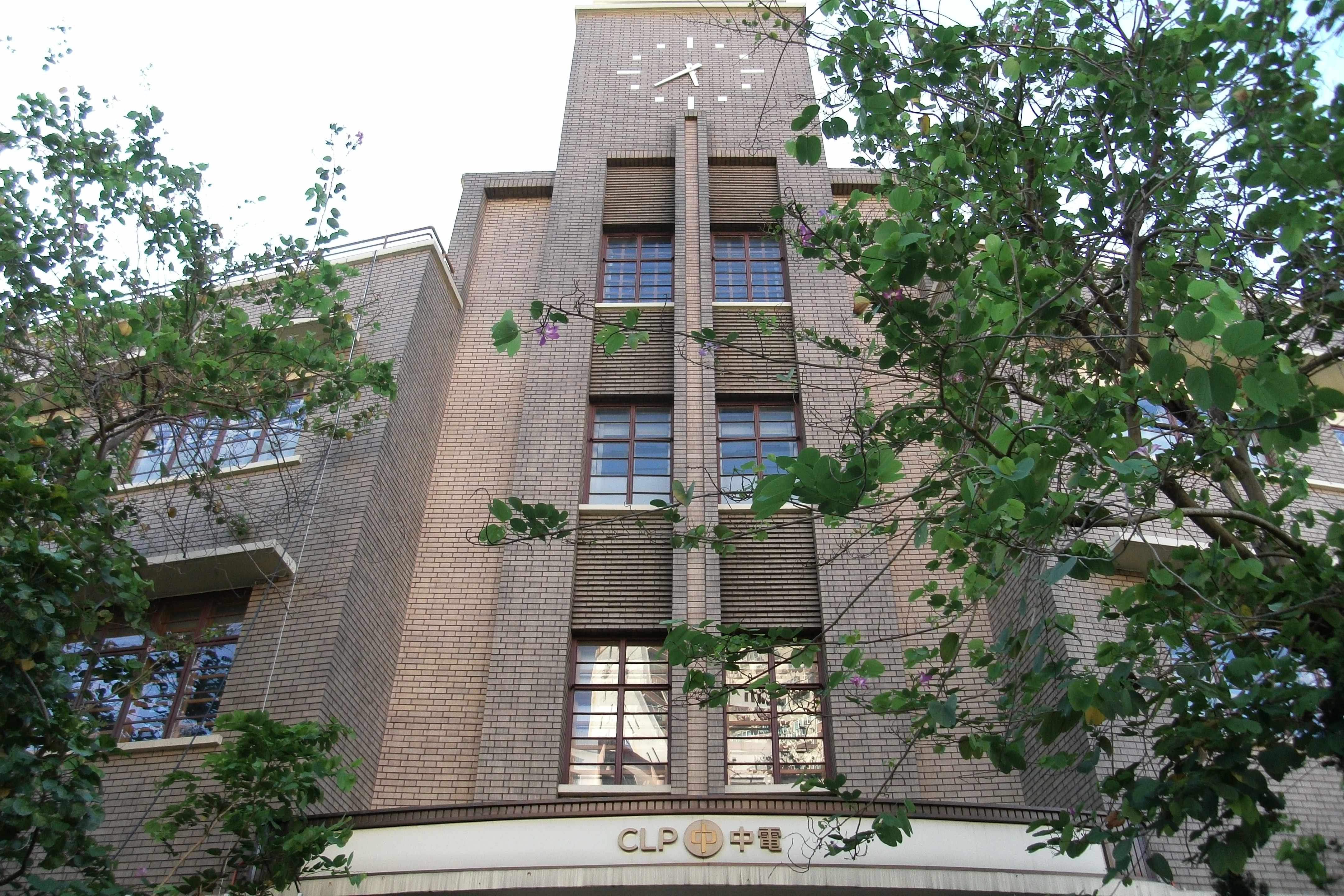 CLP clock tower in Hong Kong